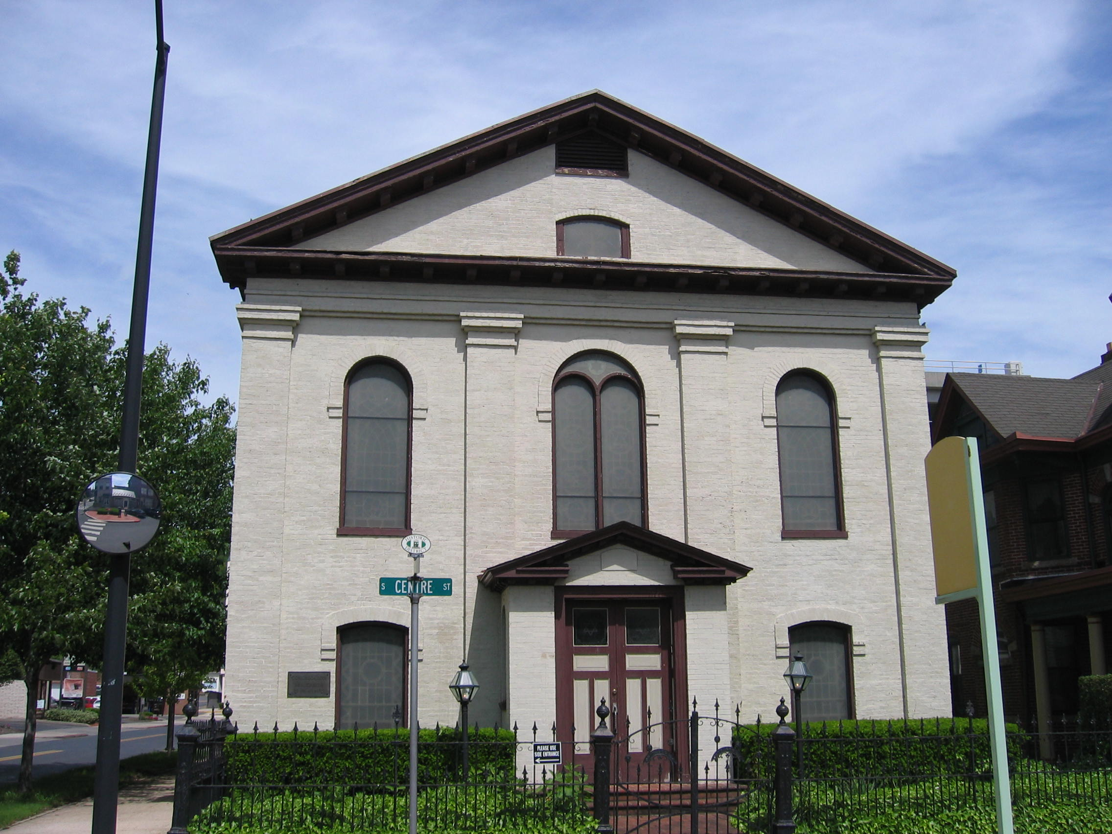 A view of the front of the B'er Chayim Temple facing east. More information on Congregation B'er Chayim in Cumberland Maryland, established in 1835, can be found on their website.